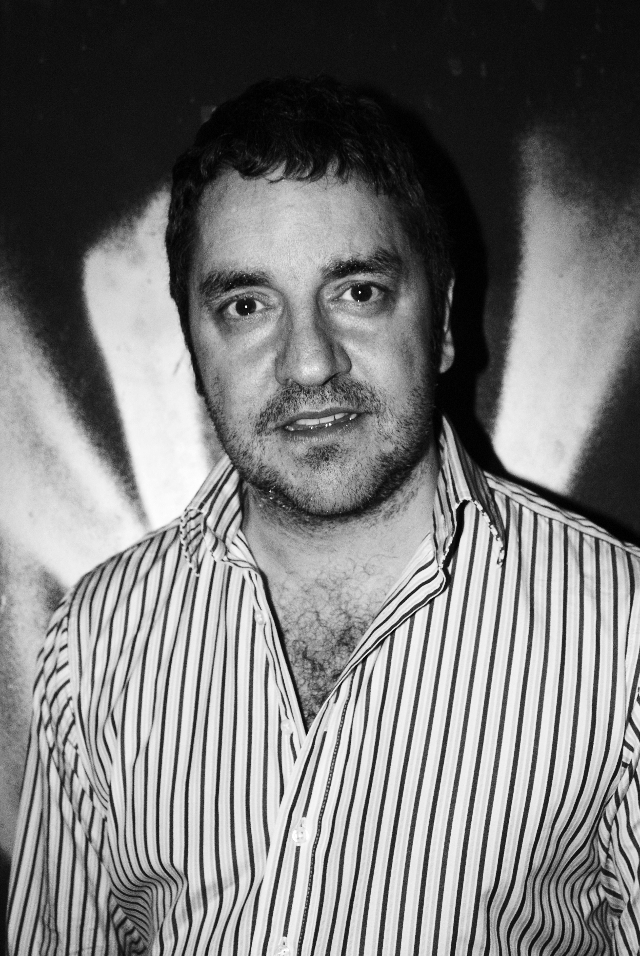 Ian Prowse